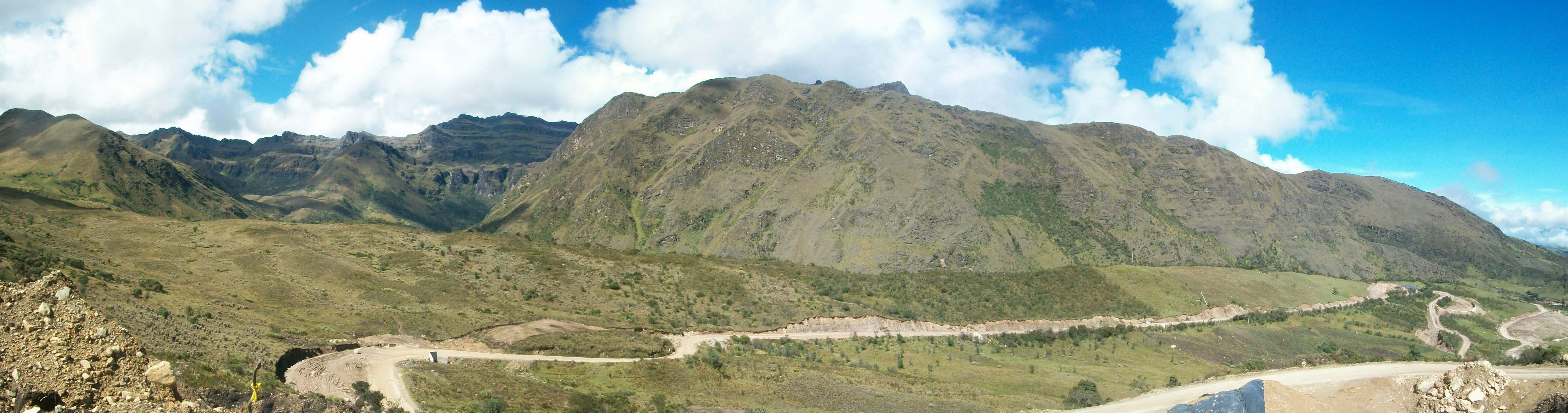 Cuchilla Mesa Colorada, Páramo Almorzadero, municipio El Cerrito photo take on Chitagá-Málaga street